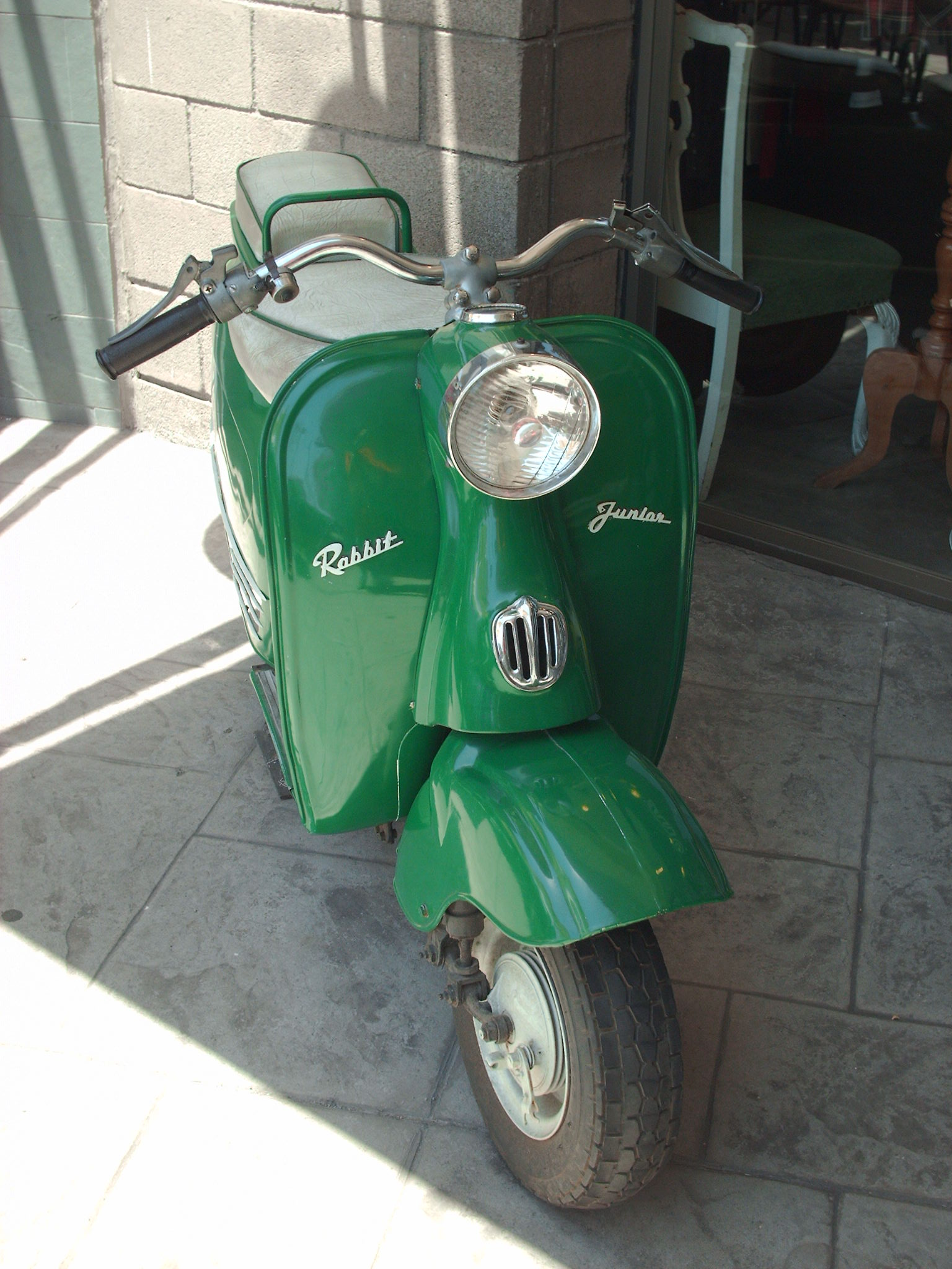 Fuji Rabbit Junior in front of a boutique in Parque Arauco mall, Santiago, Chile, January 2009.